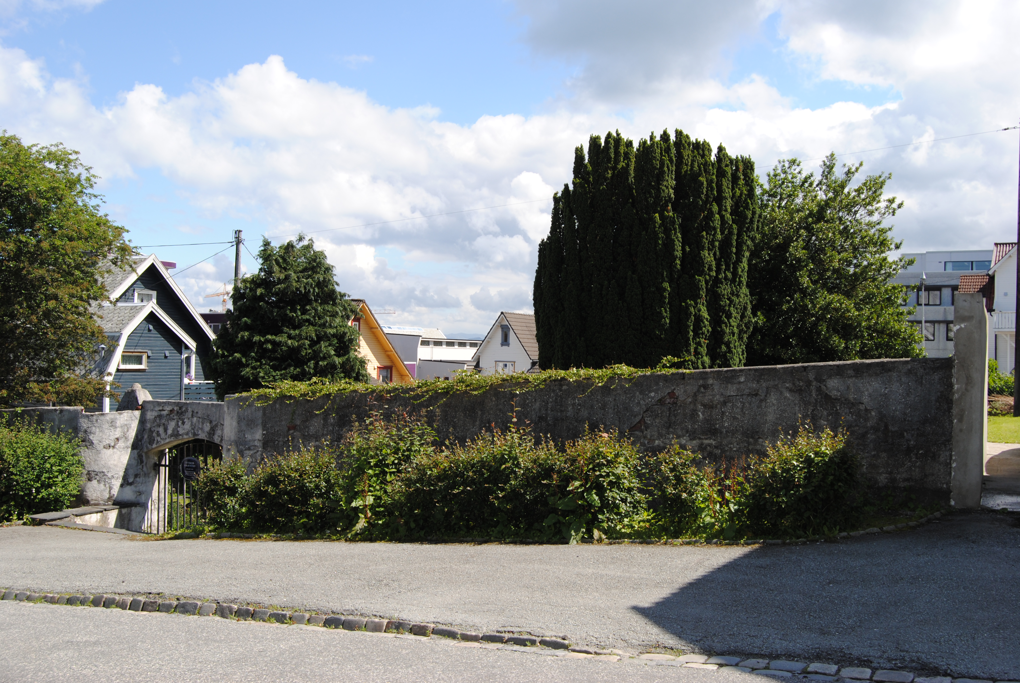 The wall at the new quaker cemetary in Stavanger, Norway